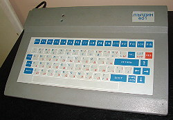 Bulgarian personal computer Peldin 601